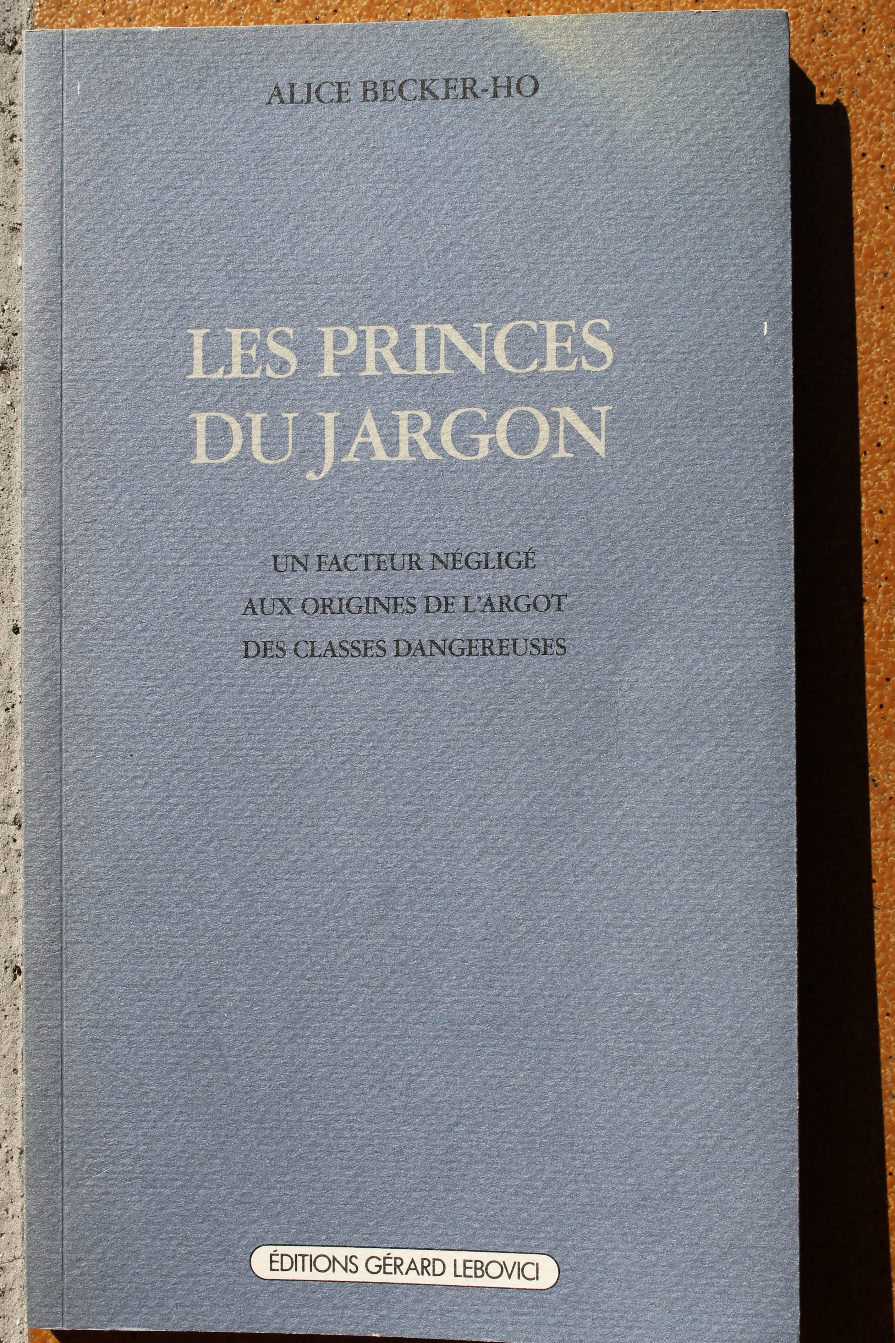 Book cover. Alice Becker-Ho, Les Princes du jargon